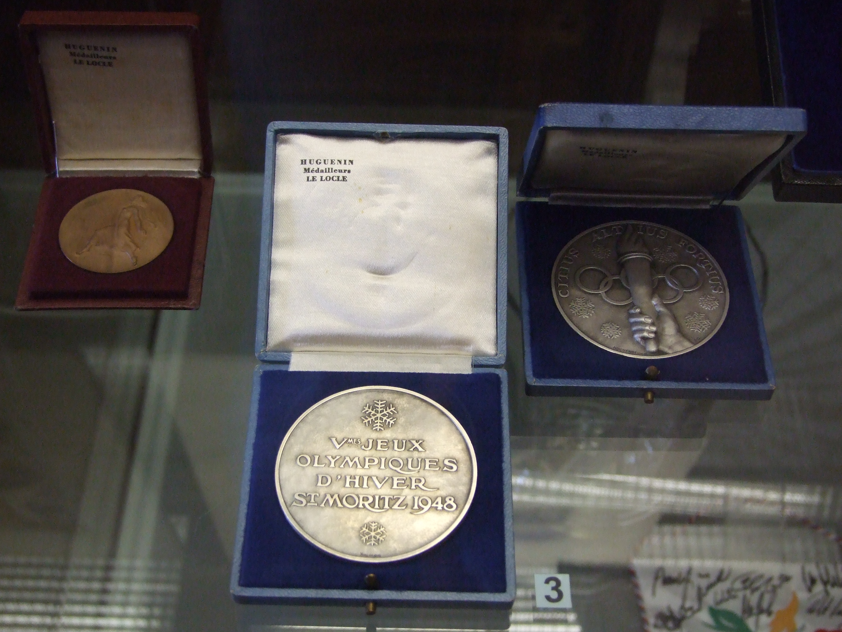 One Century Of Czech Ice Hockey Exhibition, National Museum in Prague: [1]